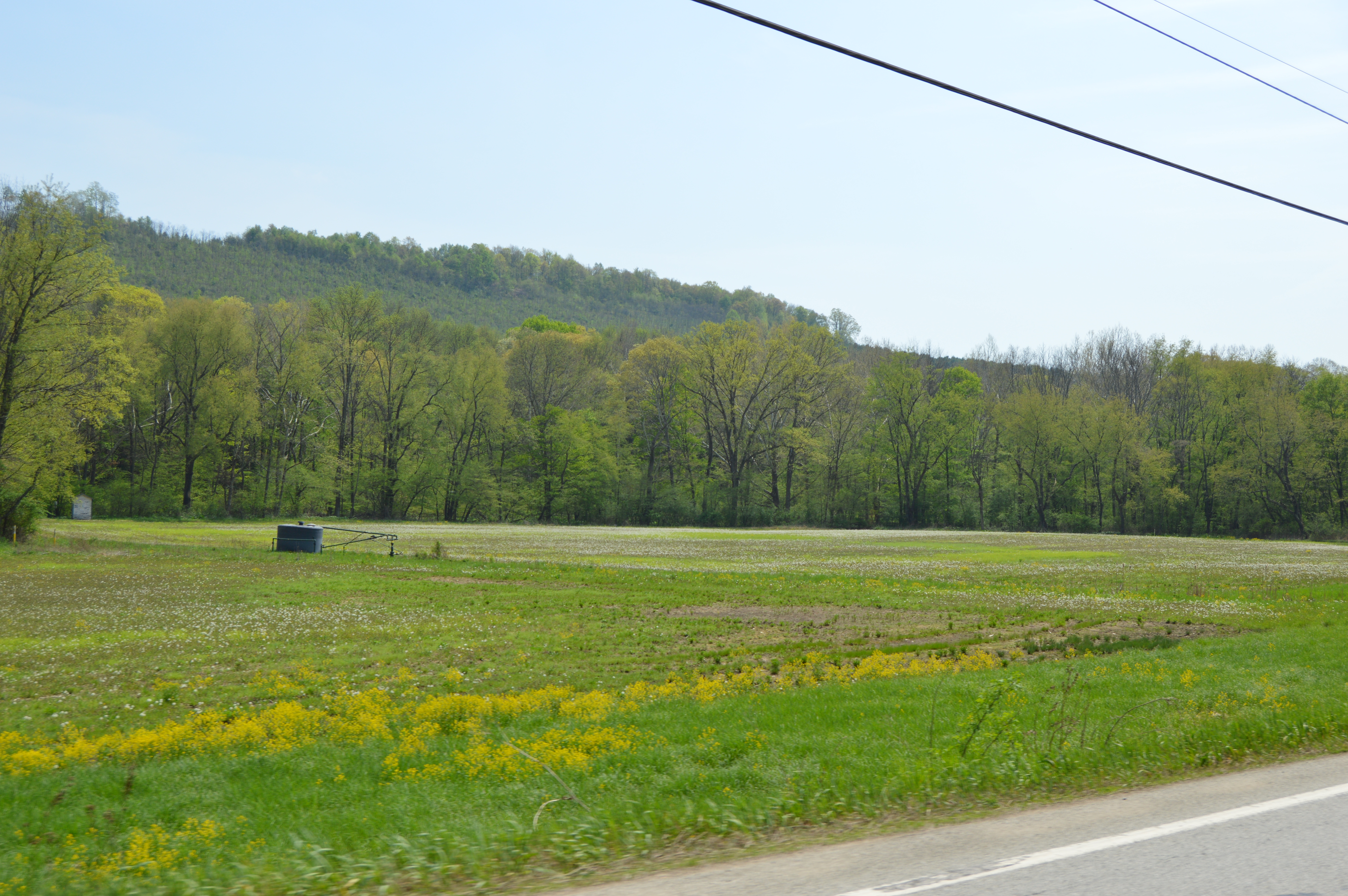 Fields in the Cowanshannock Creek floodplain, along the southern side of Pennsylvania Route 85, just east of Sunnyside in Valley Township, Armstrong County, Pennsylvania, United States.